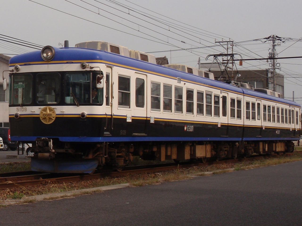 EMU Type 5000 No.5009 and 5109 by Ichibata Electric Railway(BATADEN).